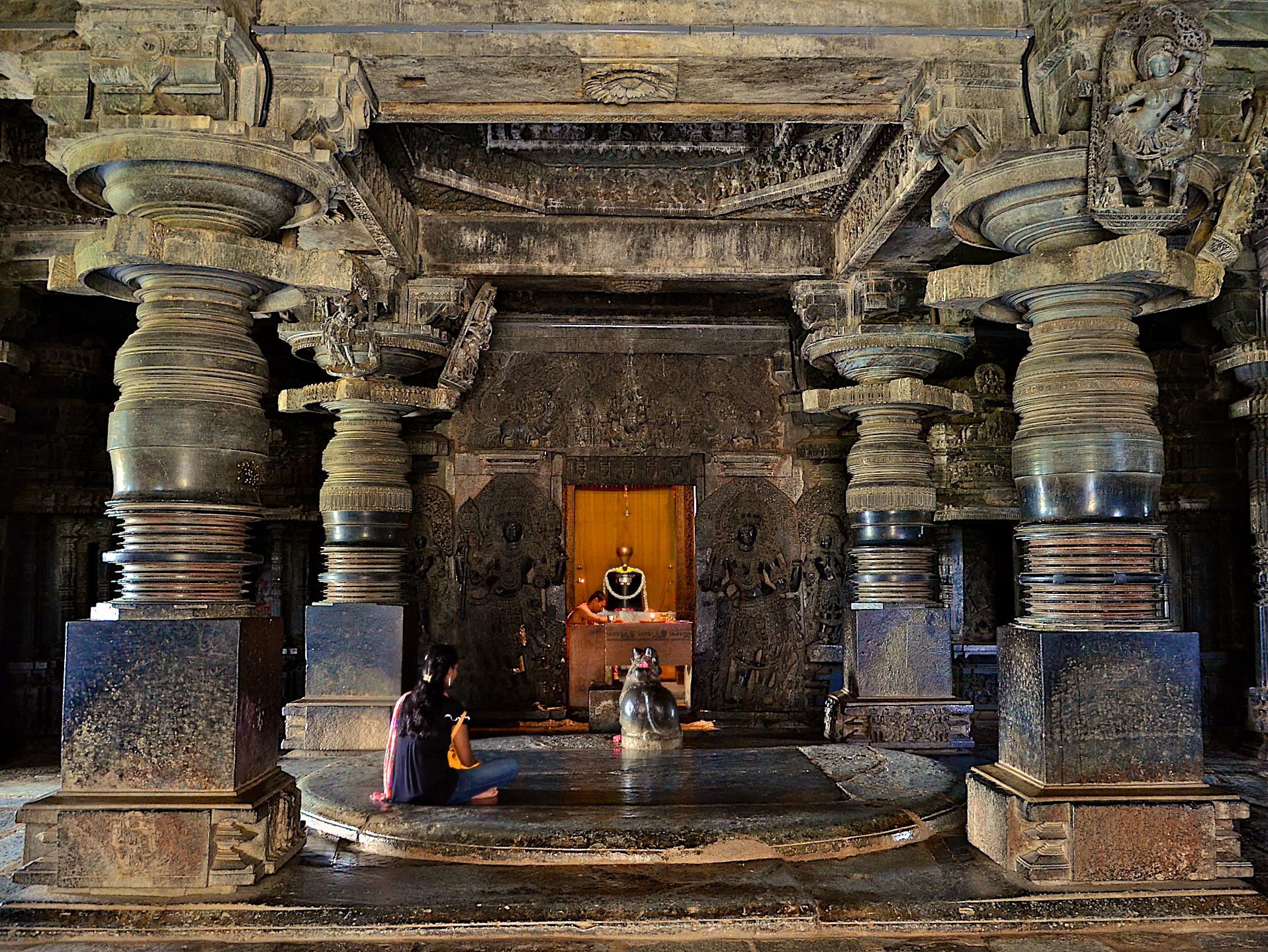 Central pedestal inside the temple